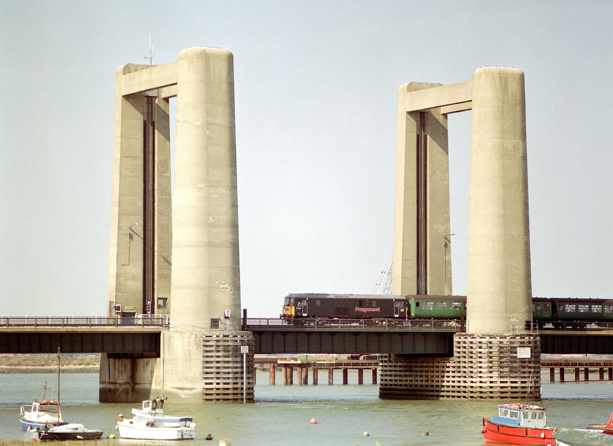 Most years Shepherd Neame Brewery, the long established brewery in Faversham, run a 'Hop Pickers Special' in conjunction with the Faversham Hop Festival. Here 73107 Spitfire brings up the rear of the Faversham - Sheerness leg of the journey crossing the Kingsferry Bridge linking the Isle of Sheppey across The Swale.